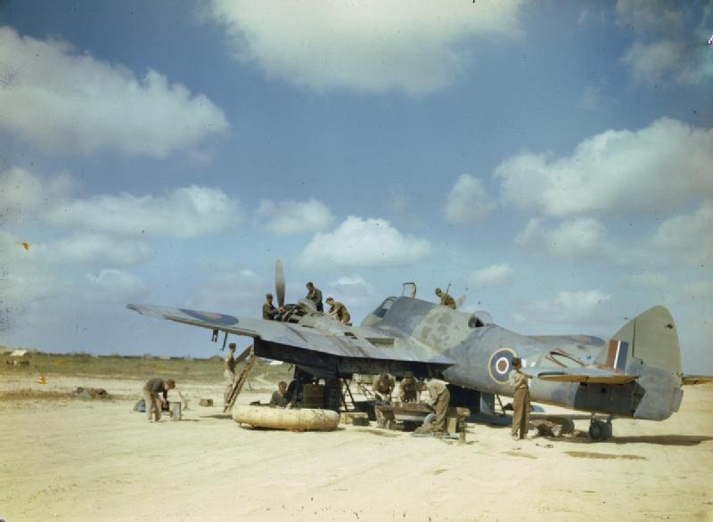 A Royal Air Force Bristol Beaufighter Aircraft (No 252 Squadron?) being serviced in the North West African Desert